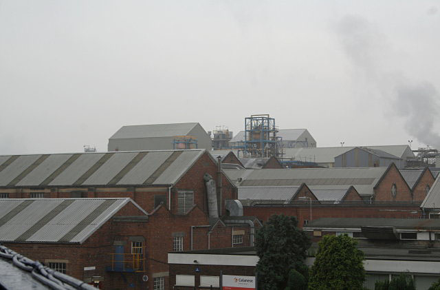 The roofs of Celanese View of the Celanese Acetate factory from the footbridge at Spondon level crossing